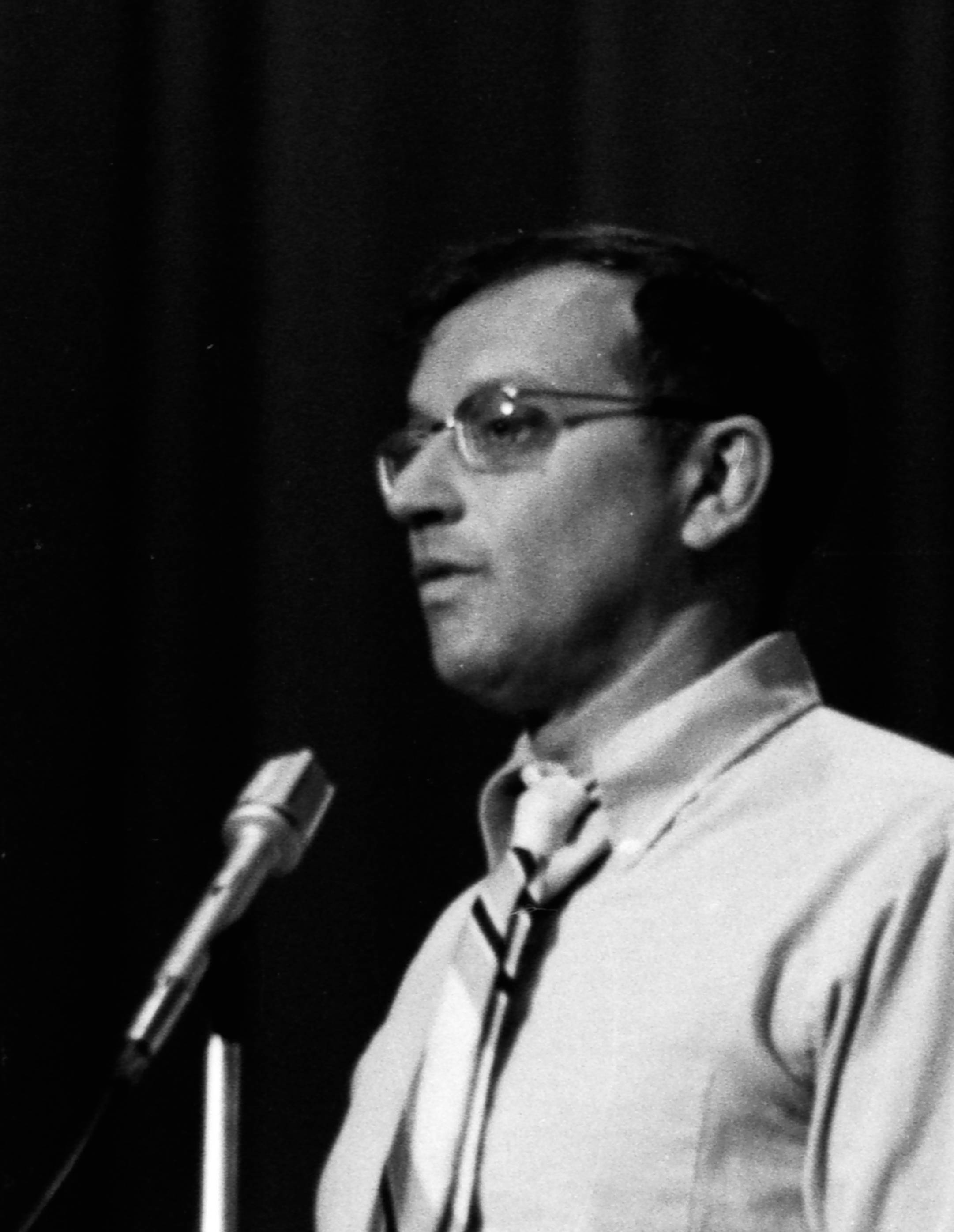 I (Robert Swirsky) took this photo August 29, 1976 and want to add it to the page for Allard Lowenstein.